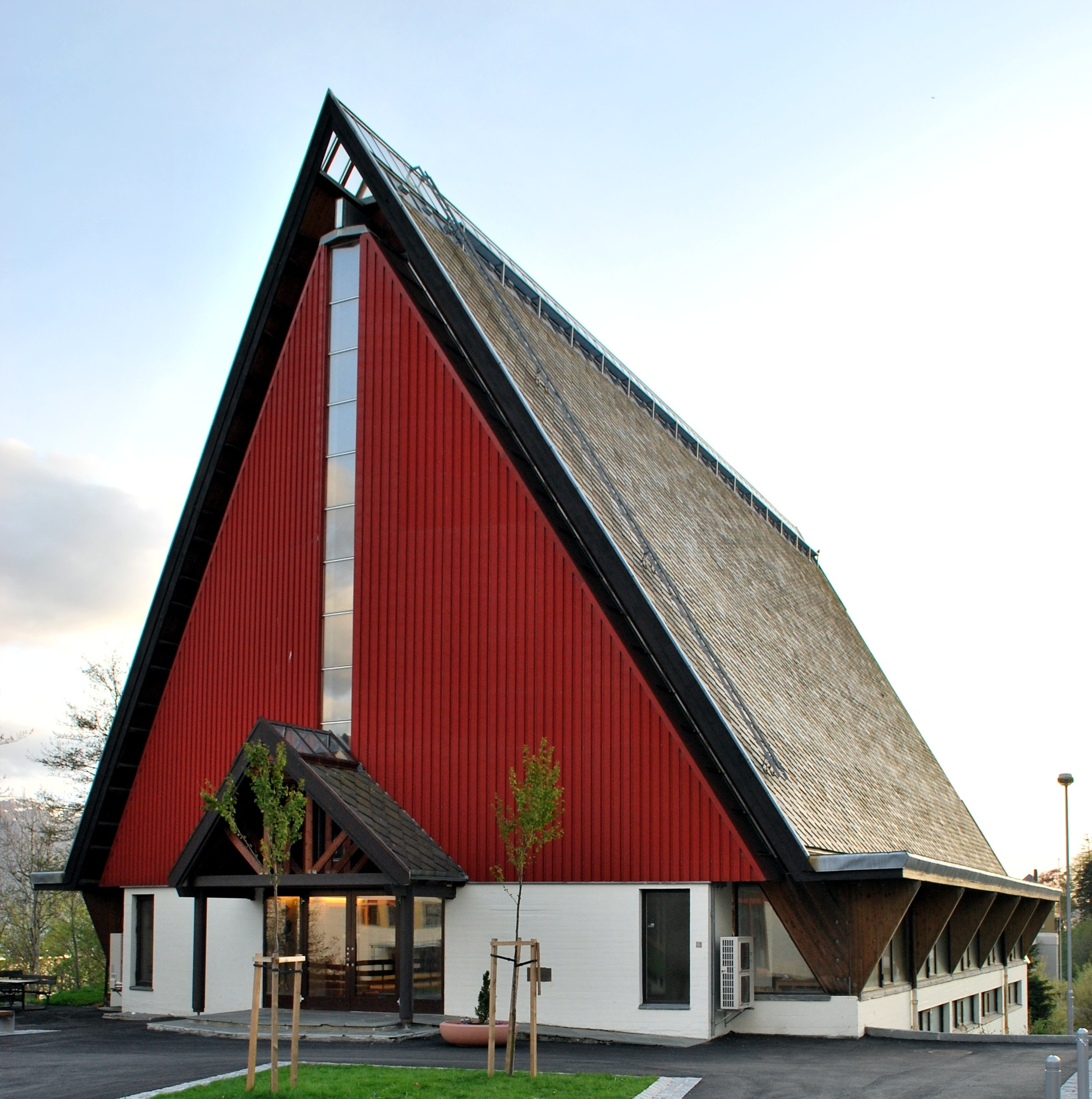 Voldsdalen kirke, Ålesund.